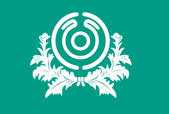 Flag of Iijima Nagano